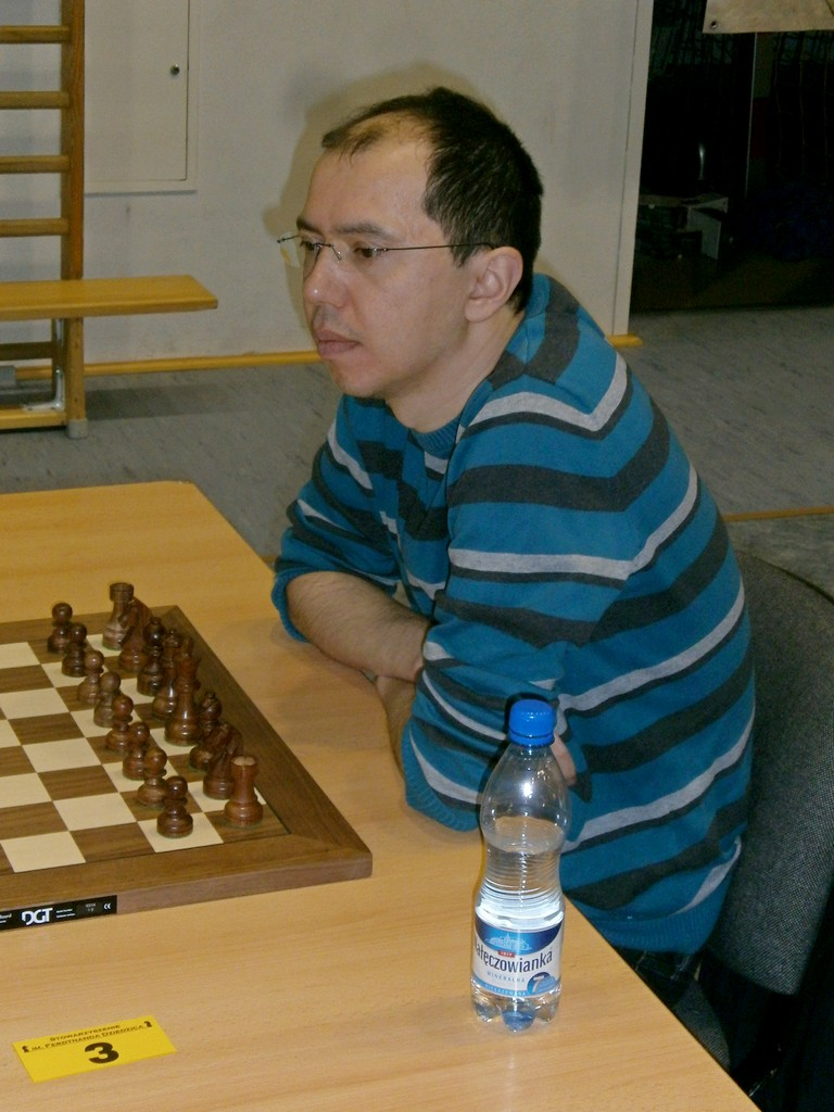 GM Rustam Kasimdzhanov playing in the 4th Dziedzic Memorial in Trzcianka (Poland)